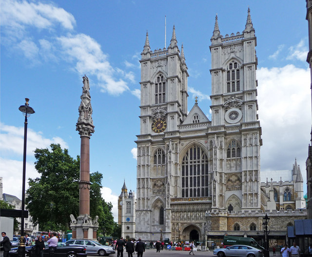 Westminster Abbey and War Memorial, London Westminster Abbey and War Memorial as seen from the south-west.